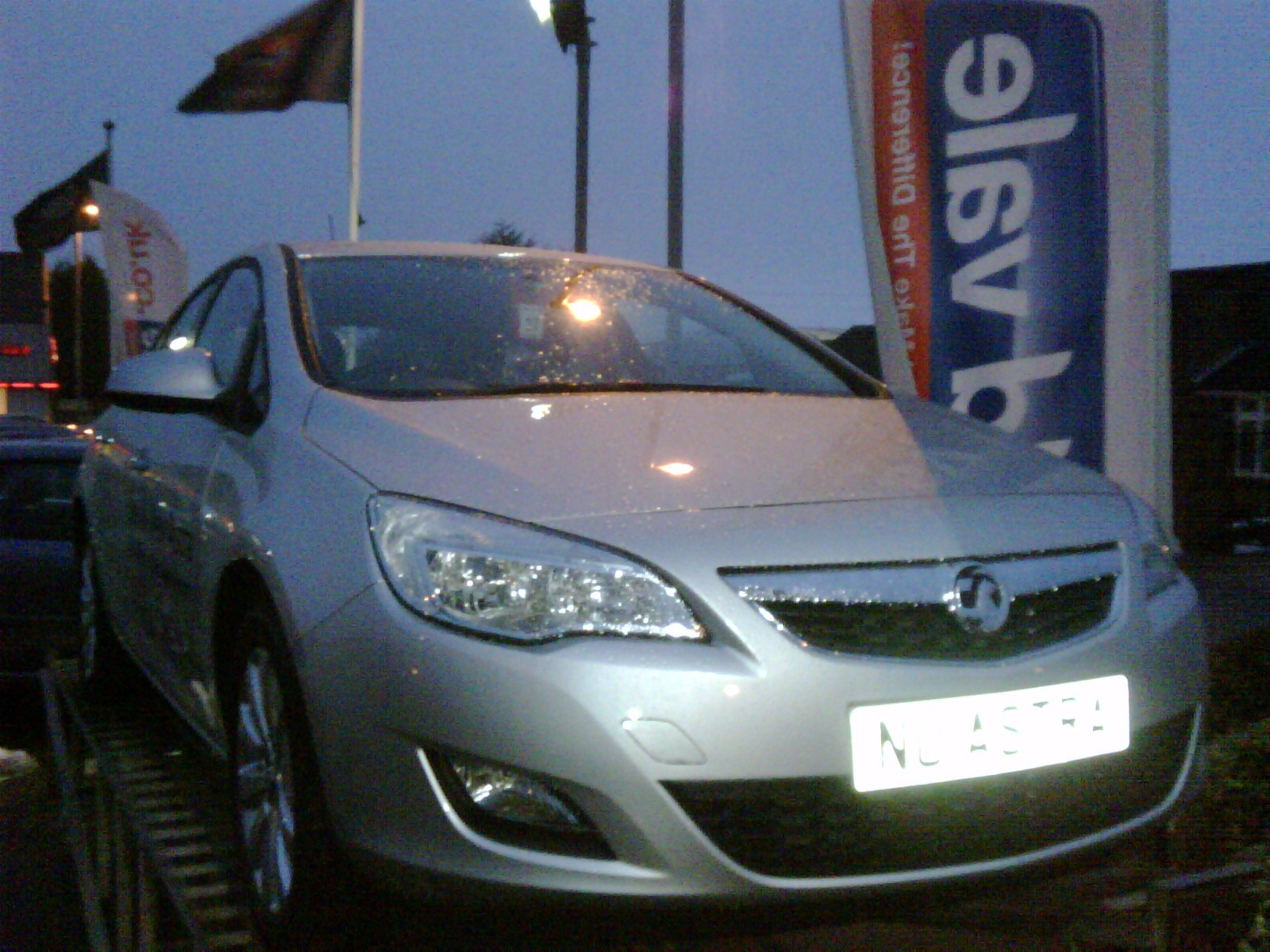 A Vauxhall Astra Mk 6 on the forcourt at Niddvale Motors, Wetherby. Taken on the evening of the 15th of January 2010.